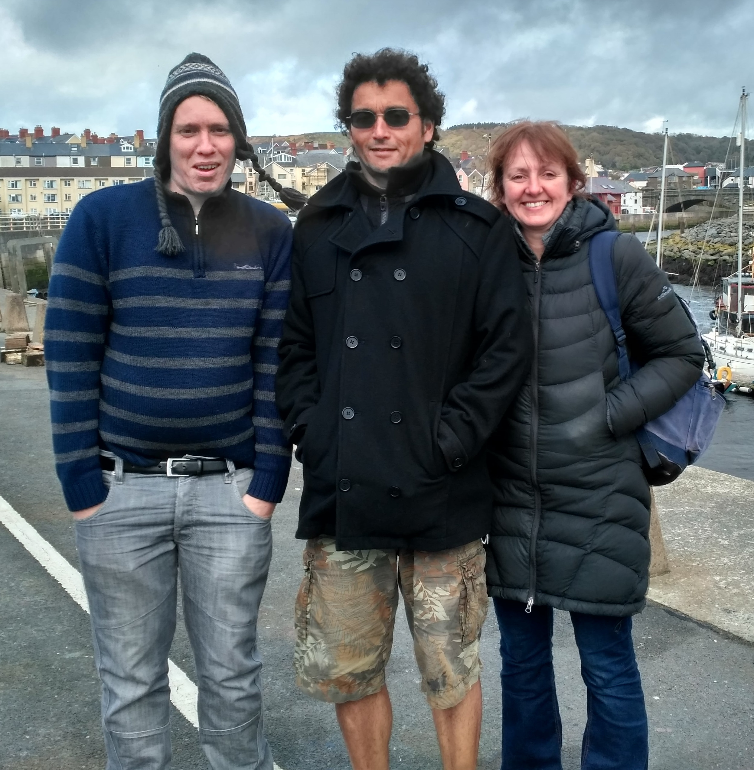 17 years after then 16 year old Bobby Kelly caused a British tabloid media frenzy by "disappearing" with the religous group "Jesus Christians", Bobby poses with Roland and Sue Gianstefani who were convicted of contempt for refusing to reveal his whereabouts to a High Court judge.